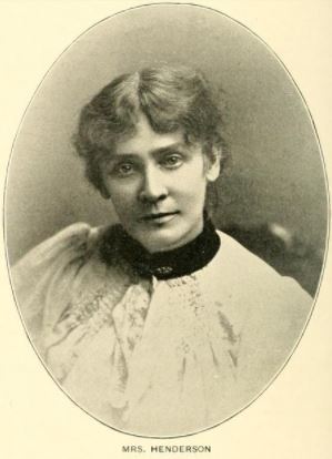 Mary Foote Henderson, The Washington Sketch Book